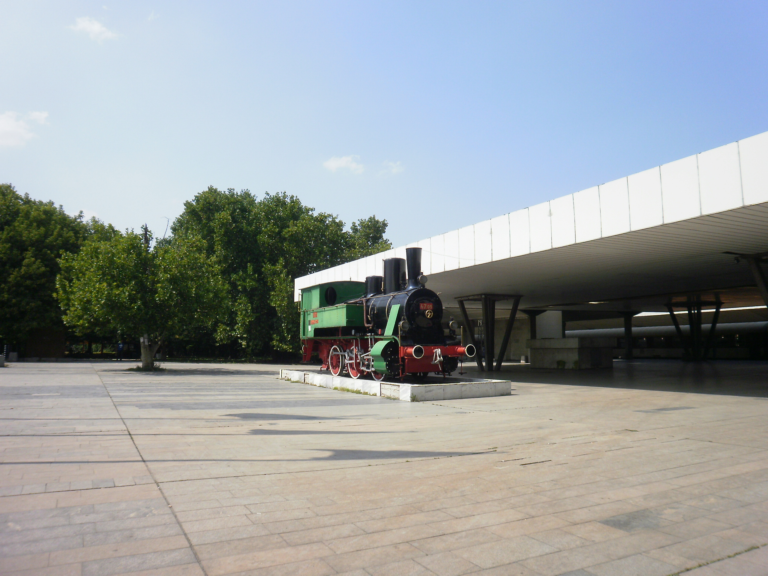 Steam locomotive - Sofia Central Railway Station